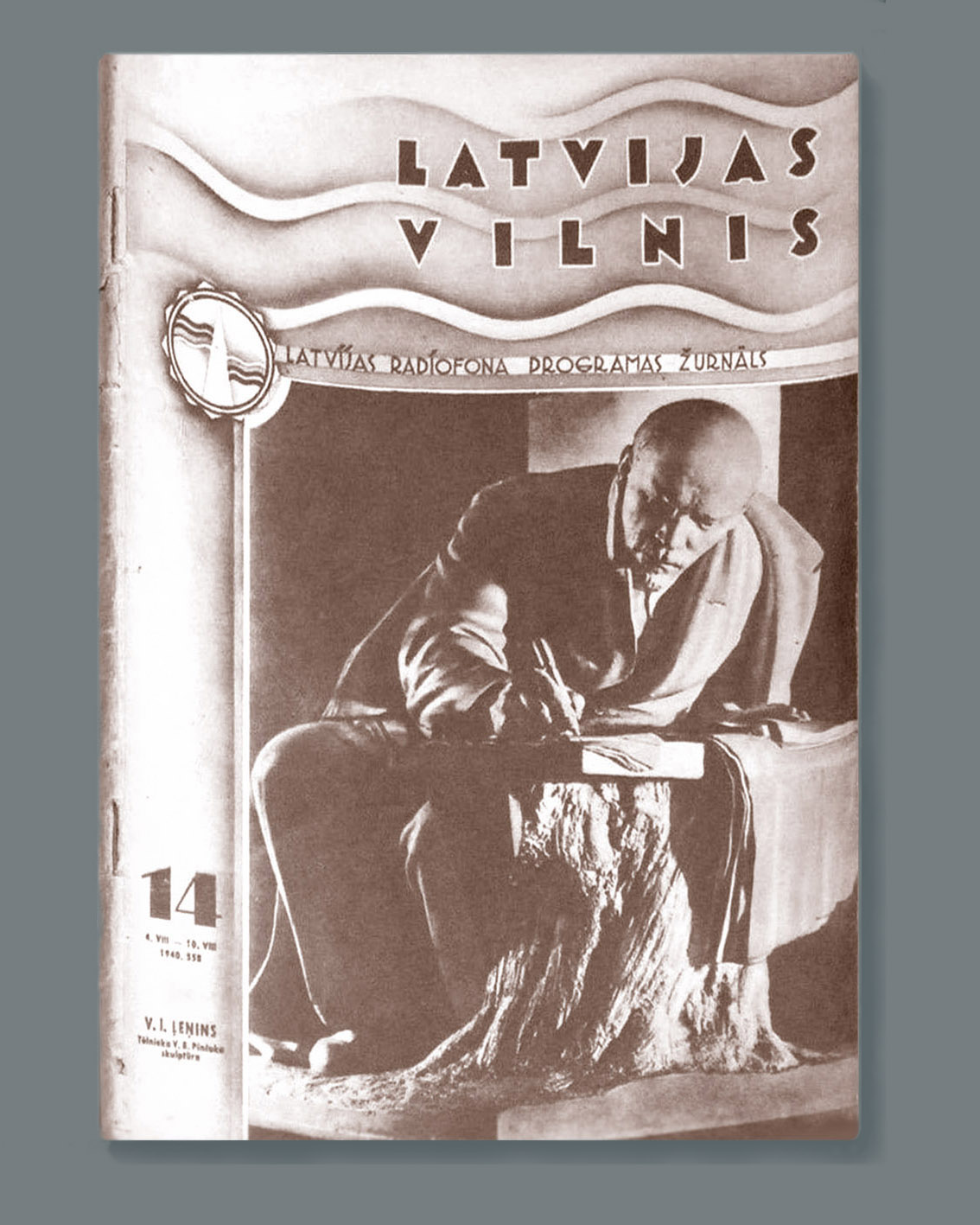 Cover of the magazine. "Riga radio waves." Radio program. 1940 year.